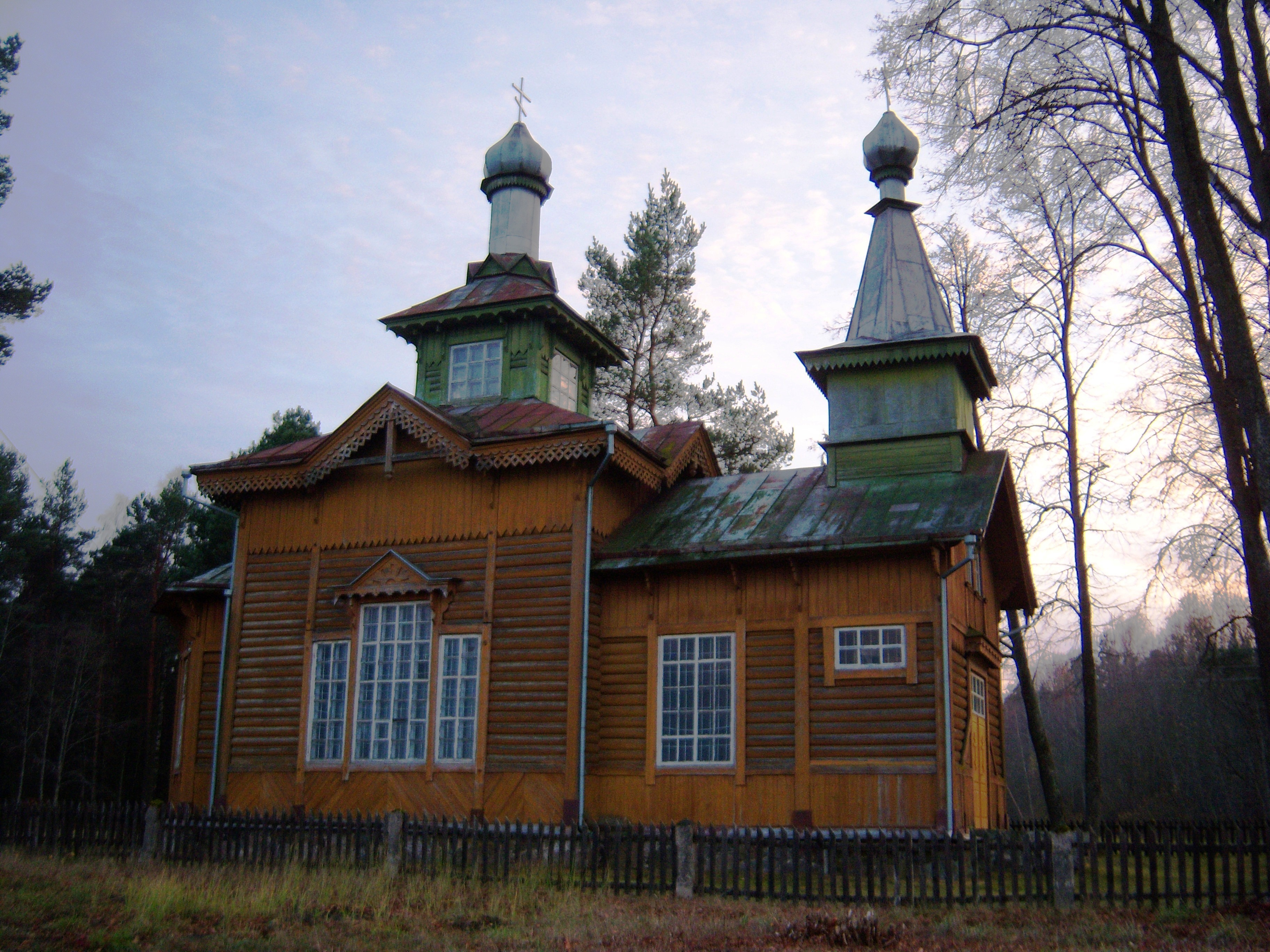 Orthodox church of the Holy Martyr Nicander in Lebeniškiai, Biržai District, Lithuania